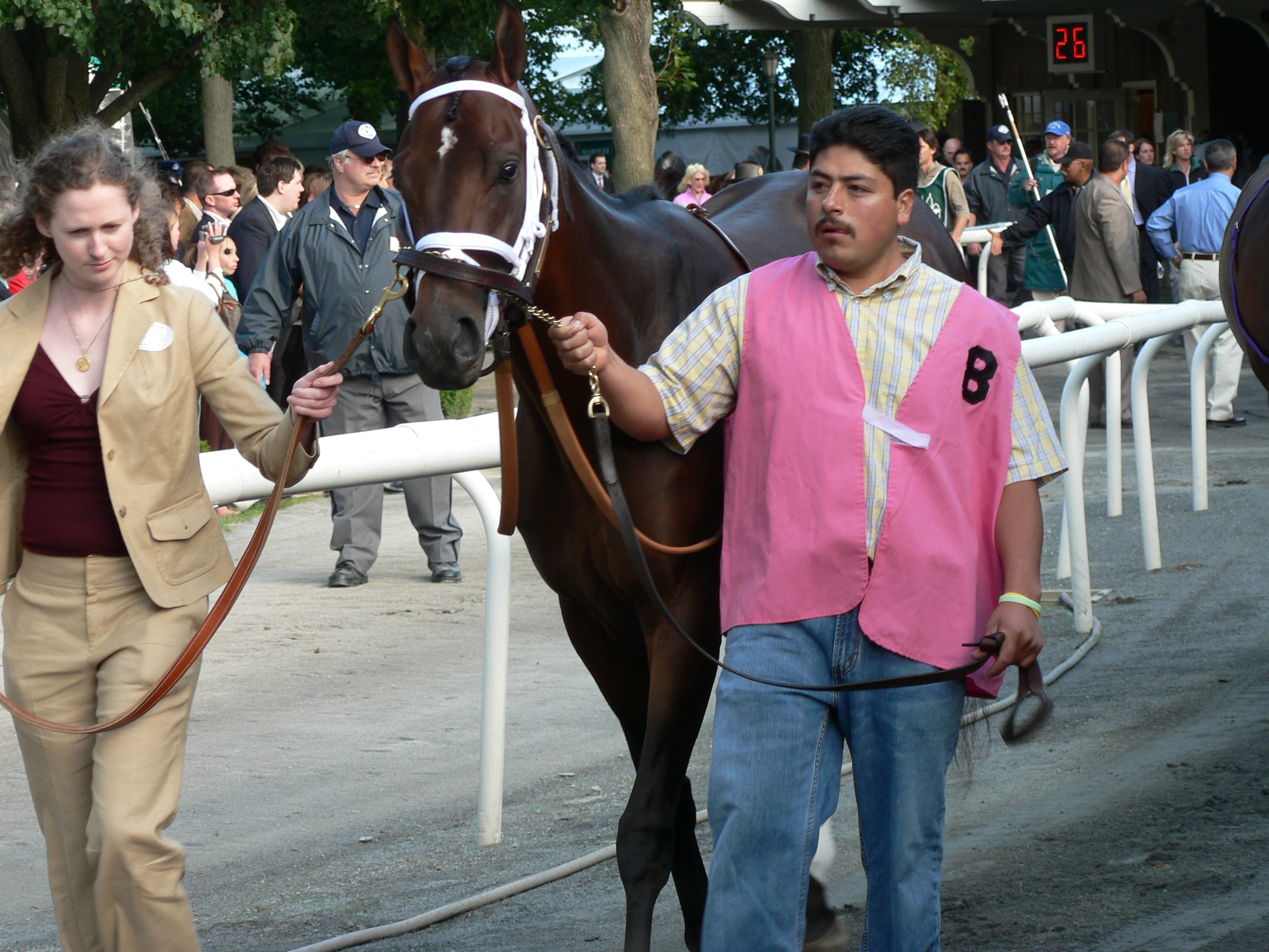 Belmont Stakes, June 10th 2006, winner Jazil.